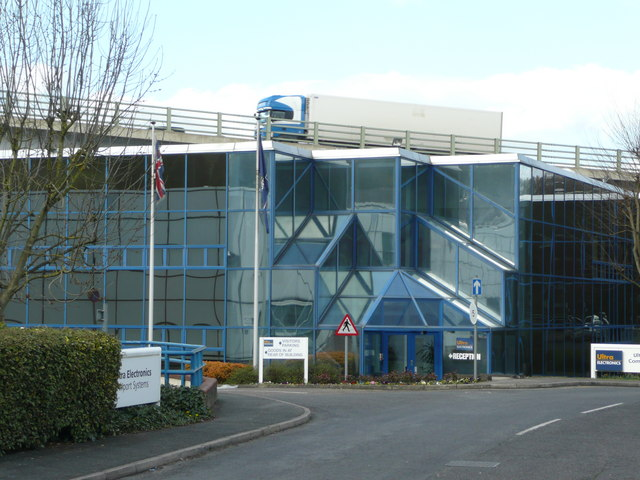 Ultra Electronics Business in the Knave's Beech Business Park at Loudwater specialising in aircraft control systems. The M40 motorway hangs overhead.